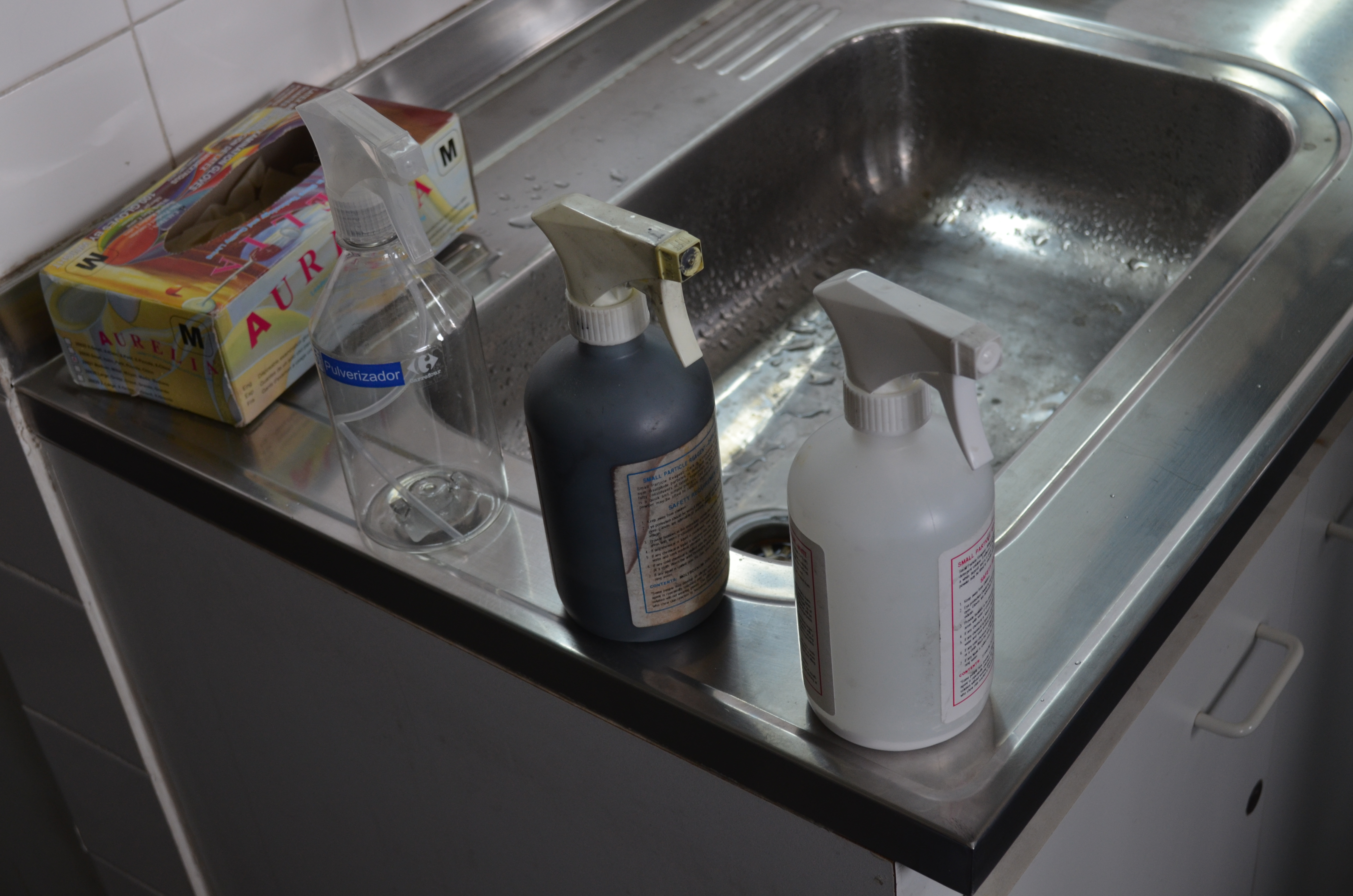 Student to fingerprint expert revealing latent fingerprints on wet surfaces using molybdenum disulfide in . Photografy taken in the chemical laboratory of IUPFA.